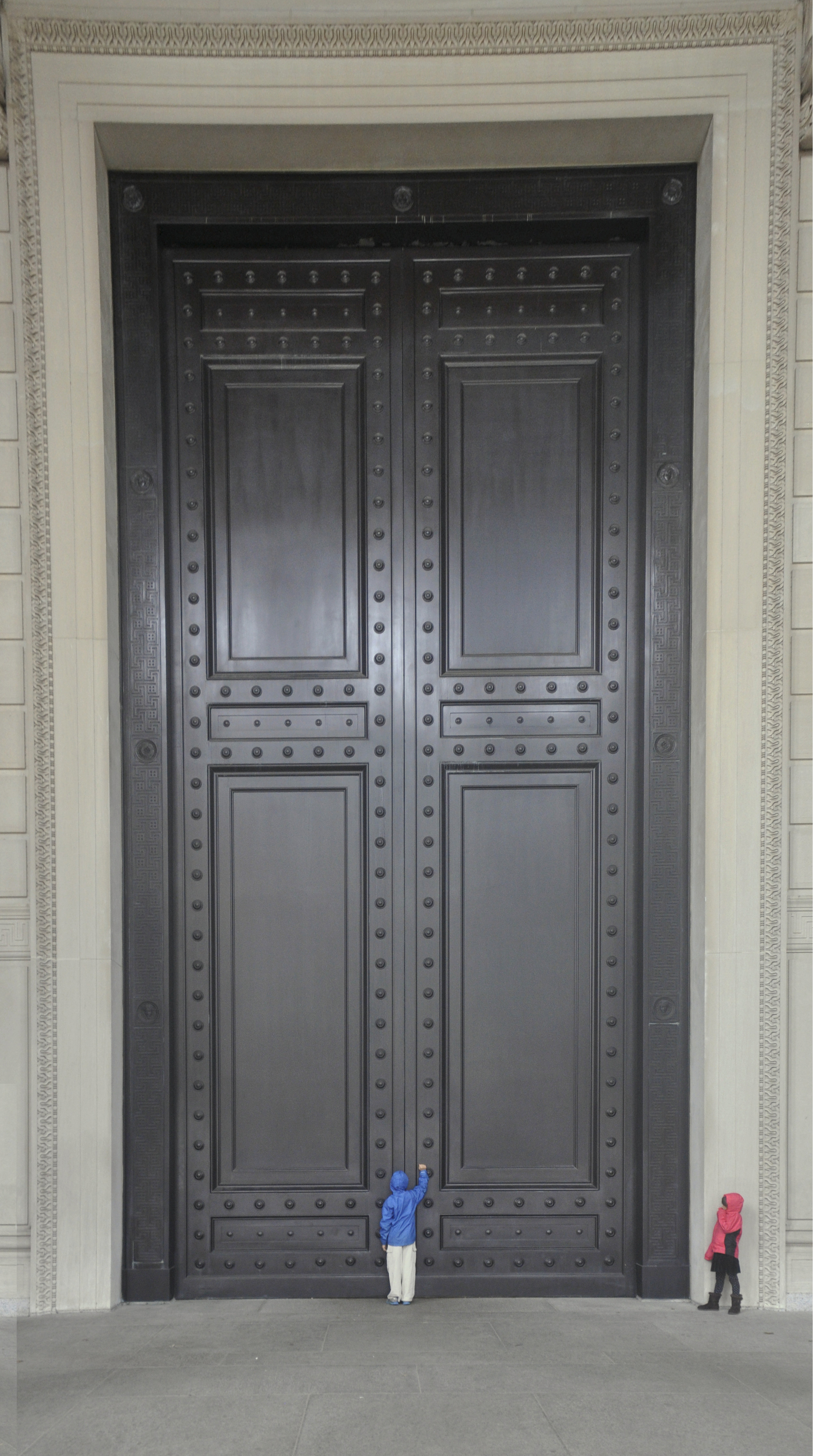 Knocking at front door of The National Archives Building, known informally as Archives I, located on Constitution Avenue in the Federal Triangle area of Penn Quarter, Washington, D.C., which is theheadquarters of the United States National Archives and Records Administration (NARA).